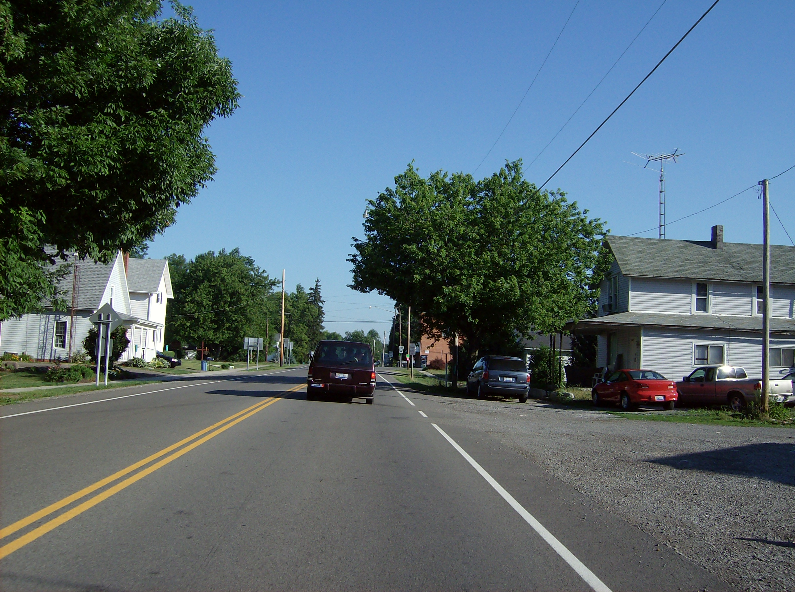 Along northbound State Route 235 on the southern side of the unincorporated community of Roundhead, Ohio, United States.